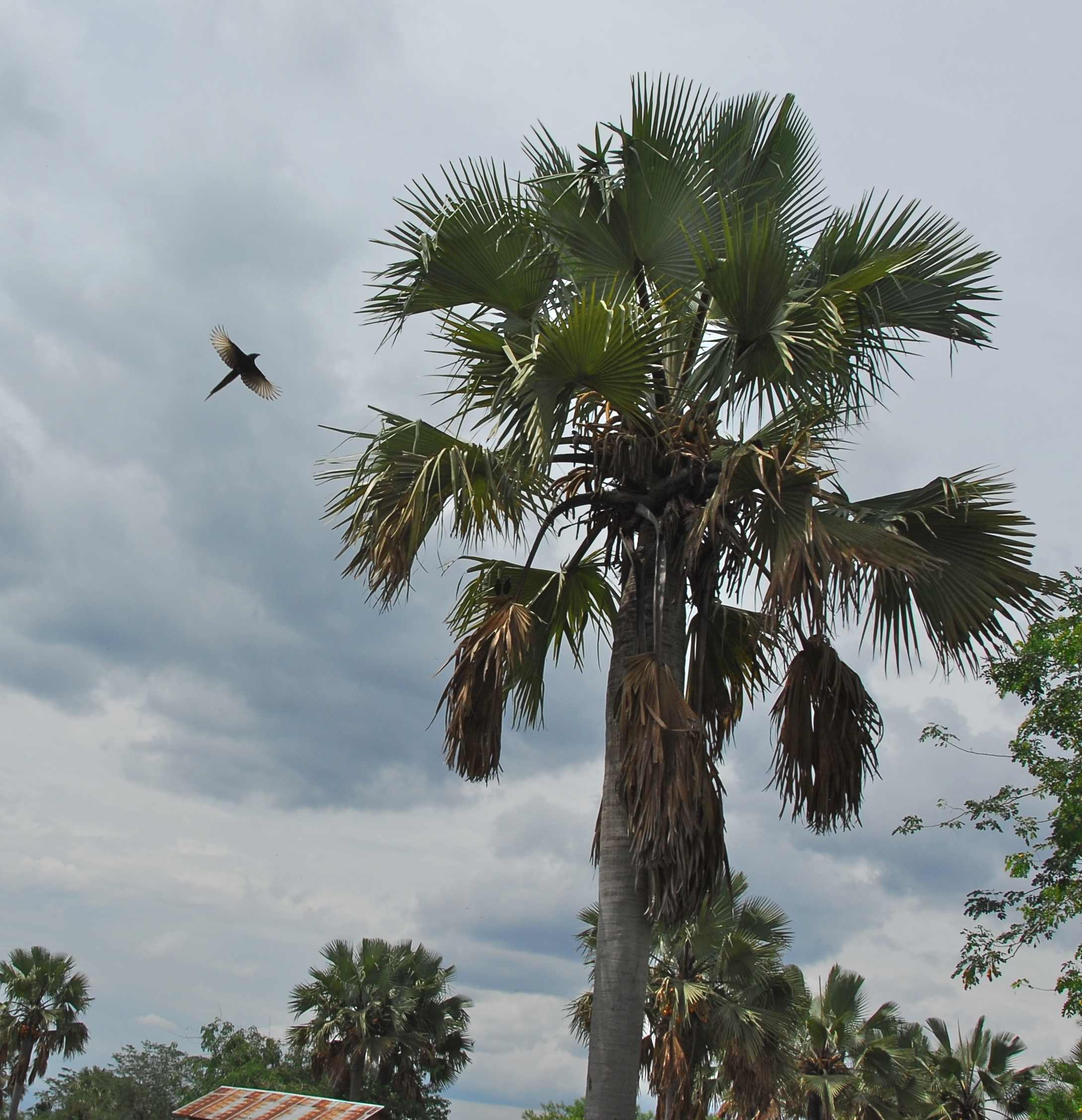 Borassus palm in Rwebisengo, Uganda